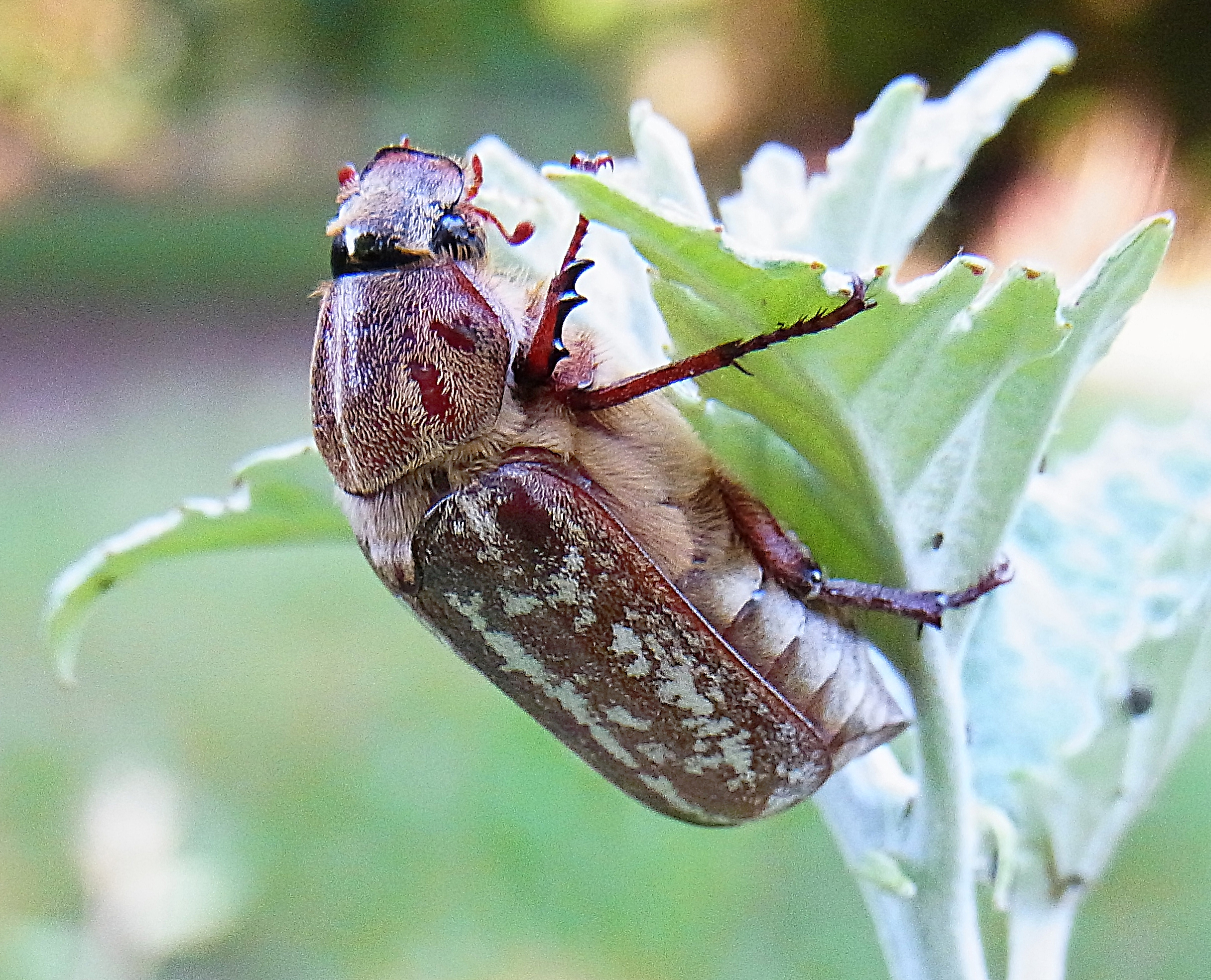 Anoxia orientalis from Hungary, Kiskunmajsa, at 2012-06-18, female